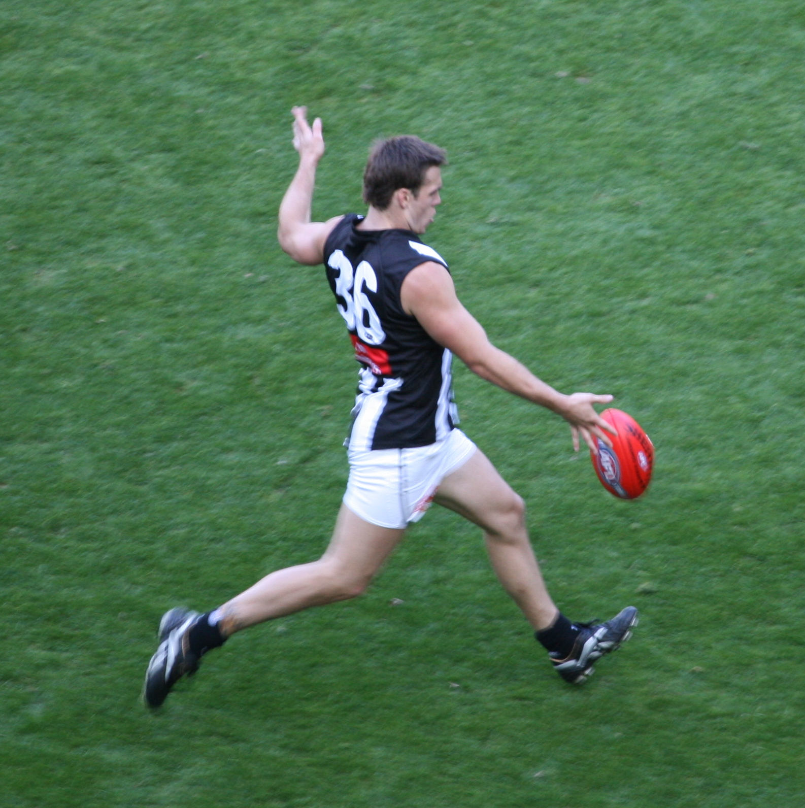 Dane Swan kicking for goal at the MCG.